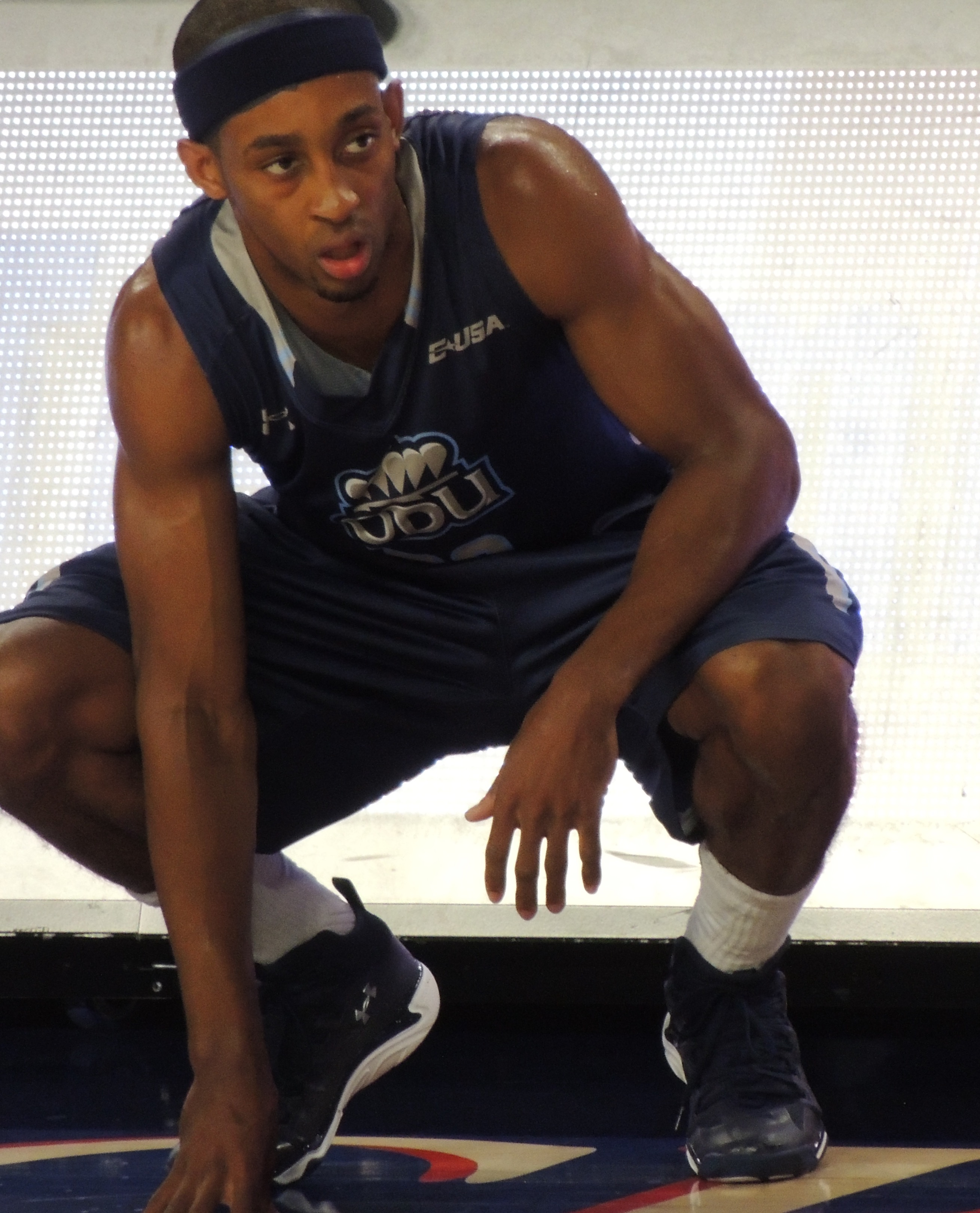 Old Dominion guard Trey Freeman waits to check into a game in December, 2015